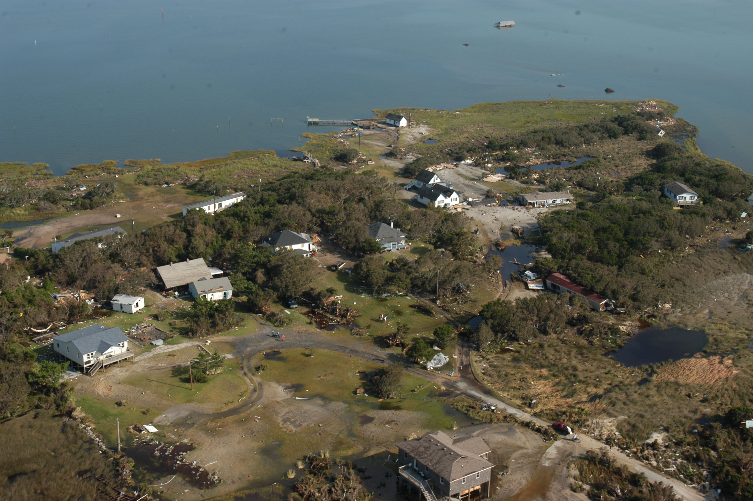 Hatteras Island, NC, September 20, 2003 -- Damage on the Outer Banks resulting from Hurricane Isabel. Photo by Mark Wolfe/FEMA News Photo